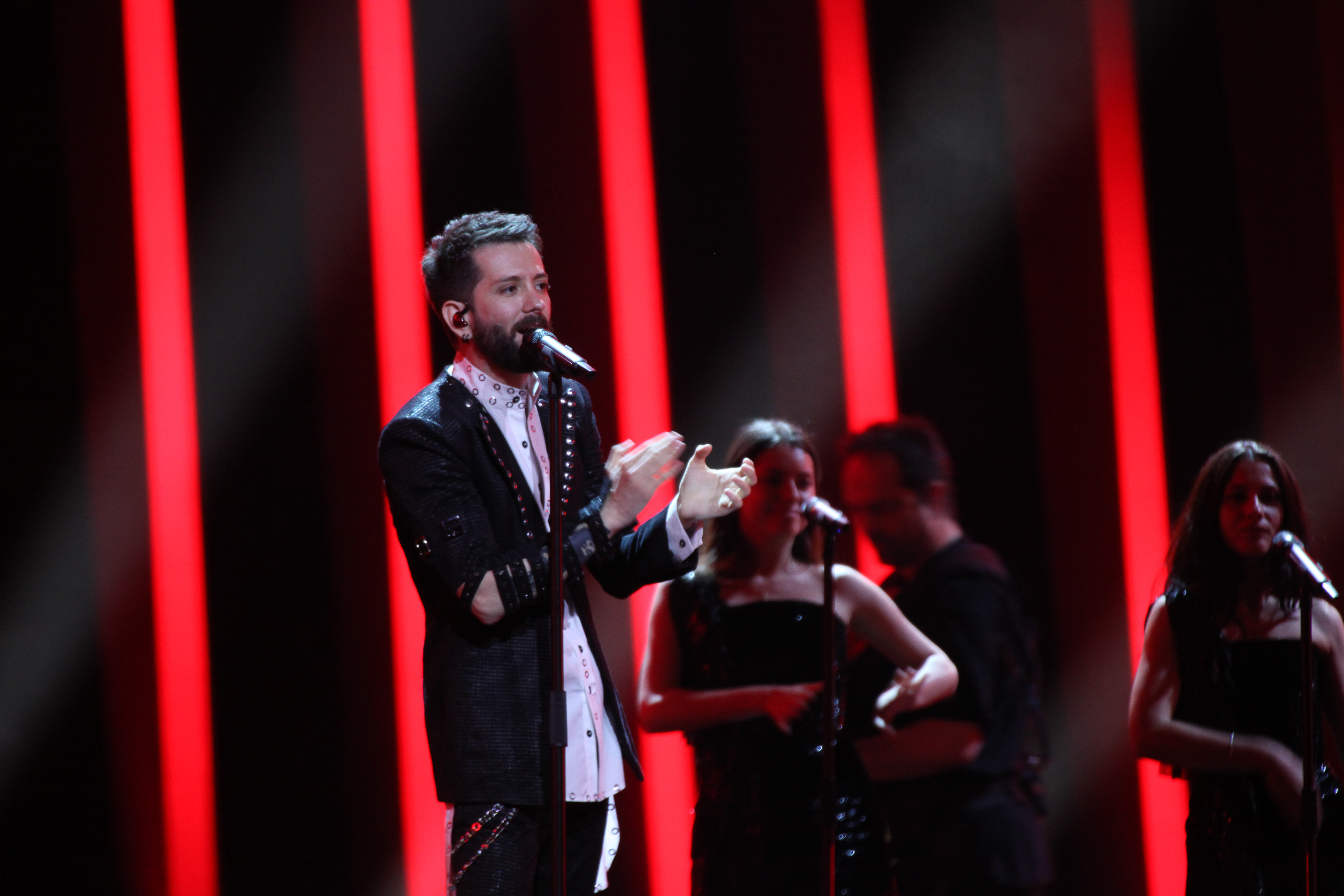 Eugent Bushpepa representing Albania with the song "Mall" during a rehearsal before the grand final of the Eurovision Song Contest 2018 in Lisbon.